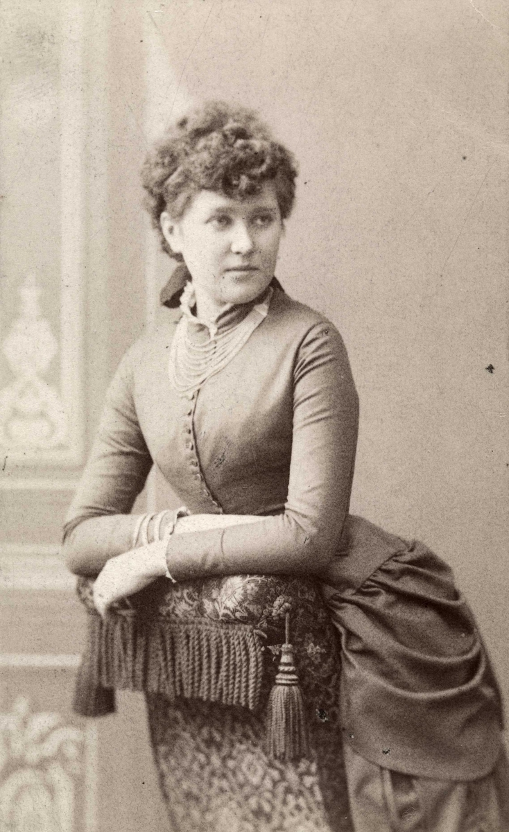 Depicted person: Constance Bruun – Norwegian actress